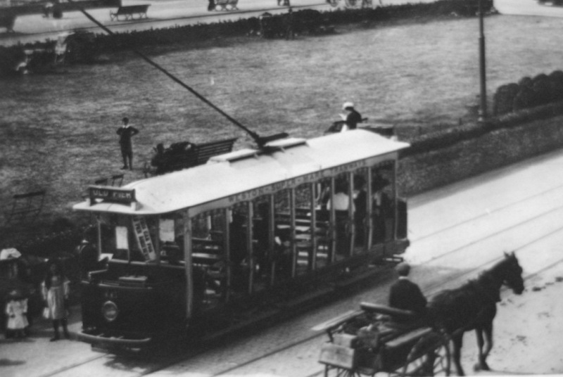 Car number 16 of the Weston-super-Mare tramways waits at oxford Street junction on a service from the Sanatorium to the Old Pier. This was one of four single deck crossbench cars delivered for the opening of the tramway.